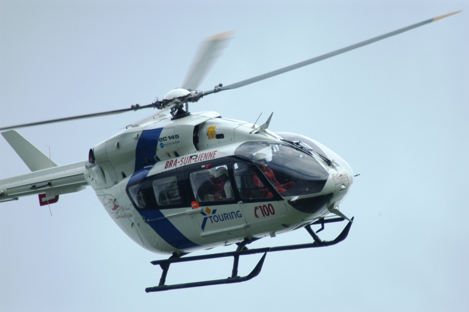 Helicopter from C.S.M. of Bra-sur-Lienne.(Belgium)